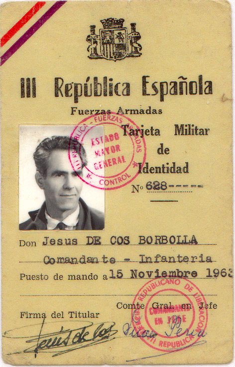 Military Carnet of the Spanish Republic in exile.